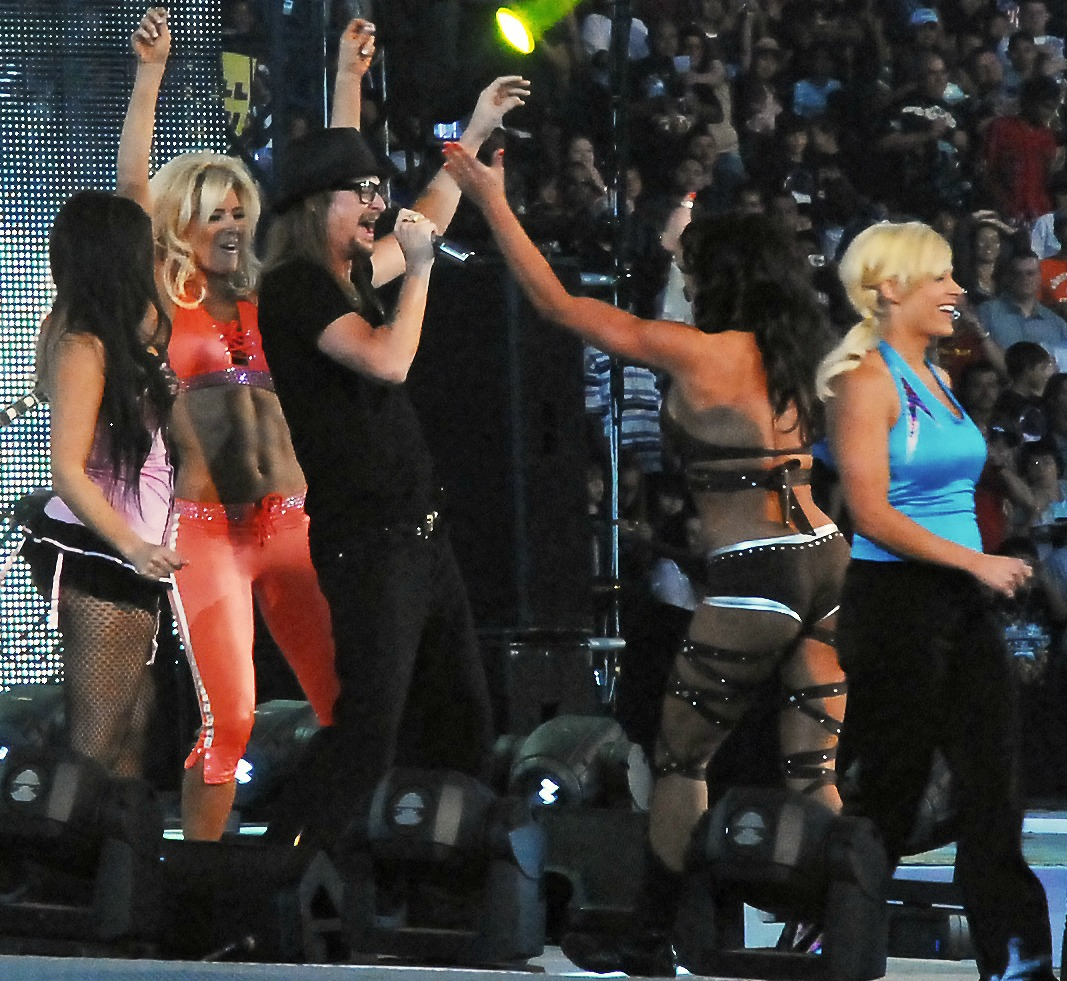 Molly Holly, Jackie Gayda (backwards), Torrie Wilson, Joy Giovanni (backwards) and Kid Rock at WrestleMania 25.